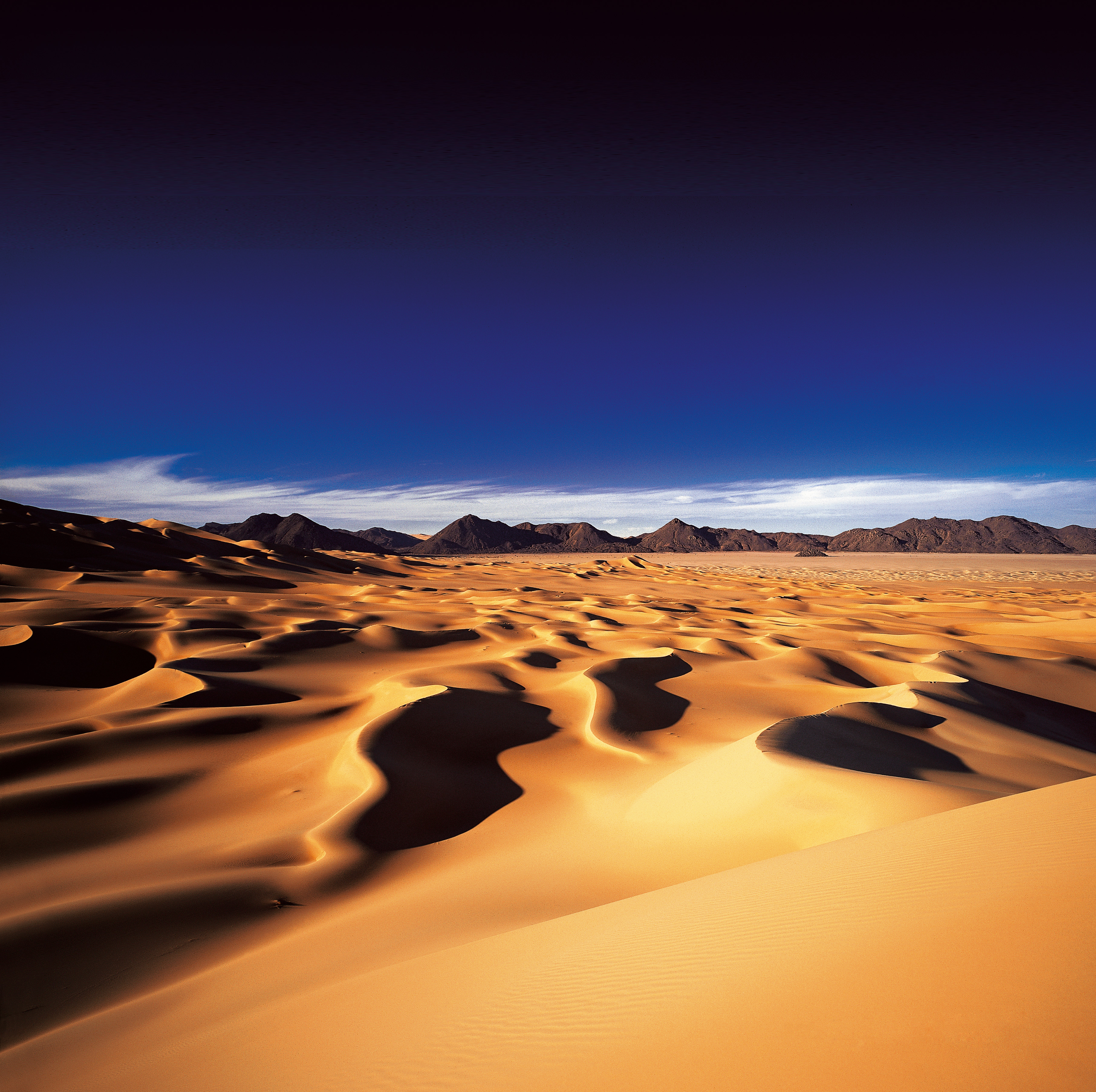 Dunes in Arakao, Sahara, Niger